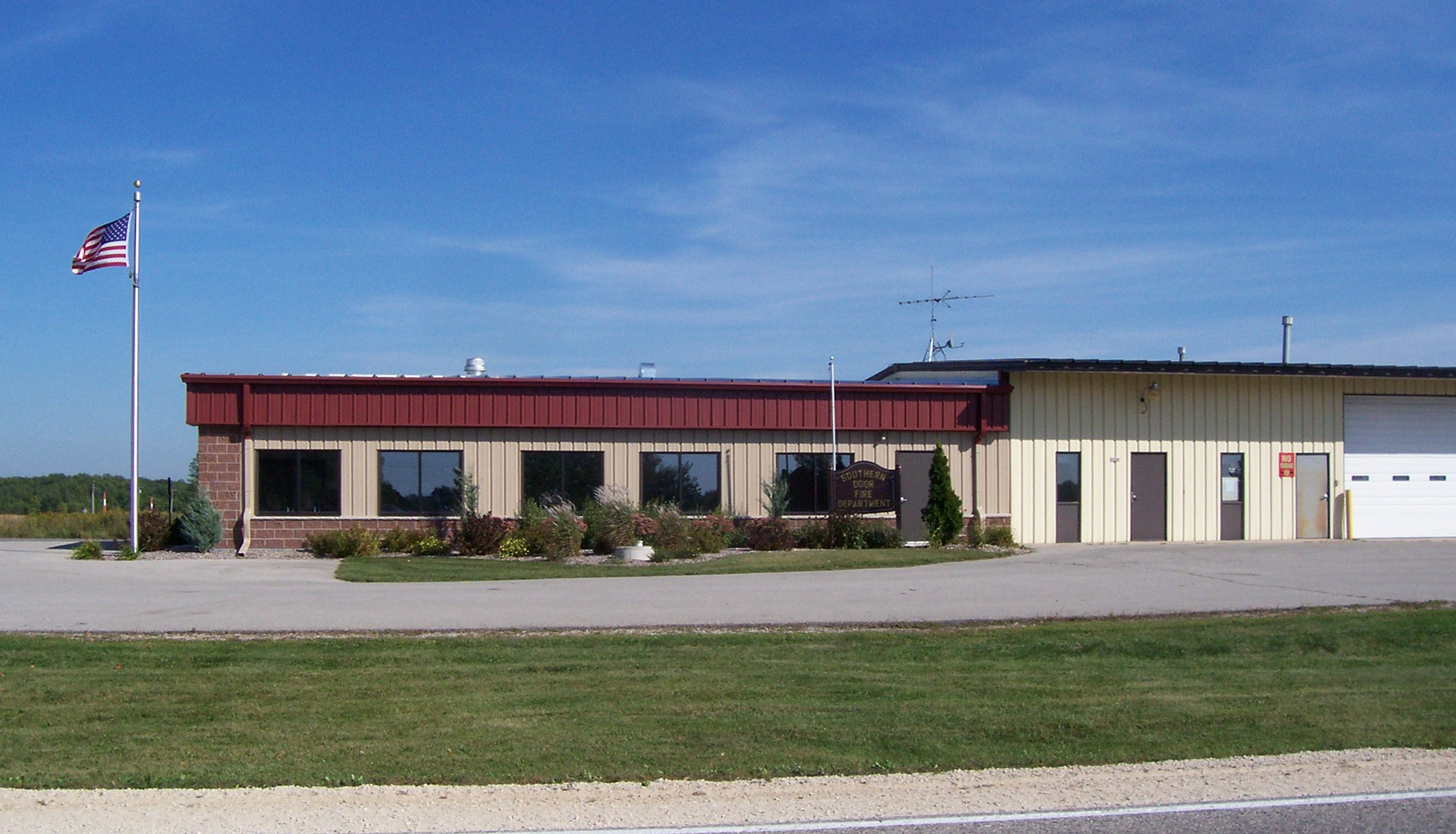 Looking southeast at the town hall for Nasewaupee, Wisconsin.